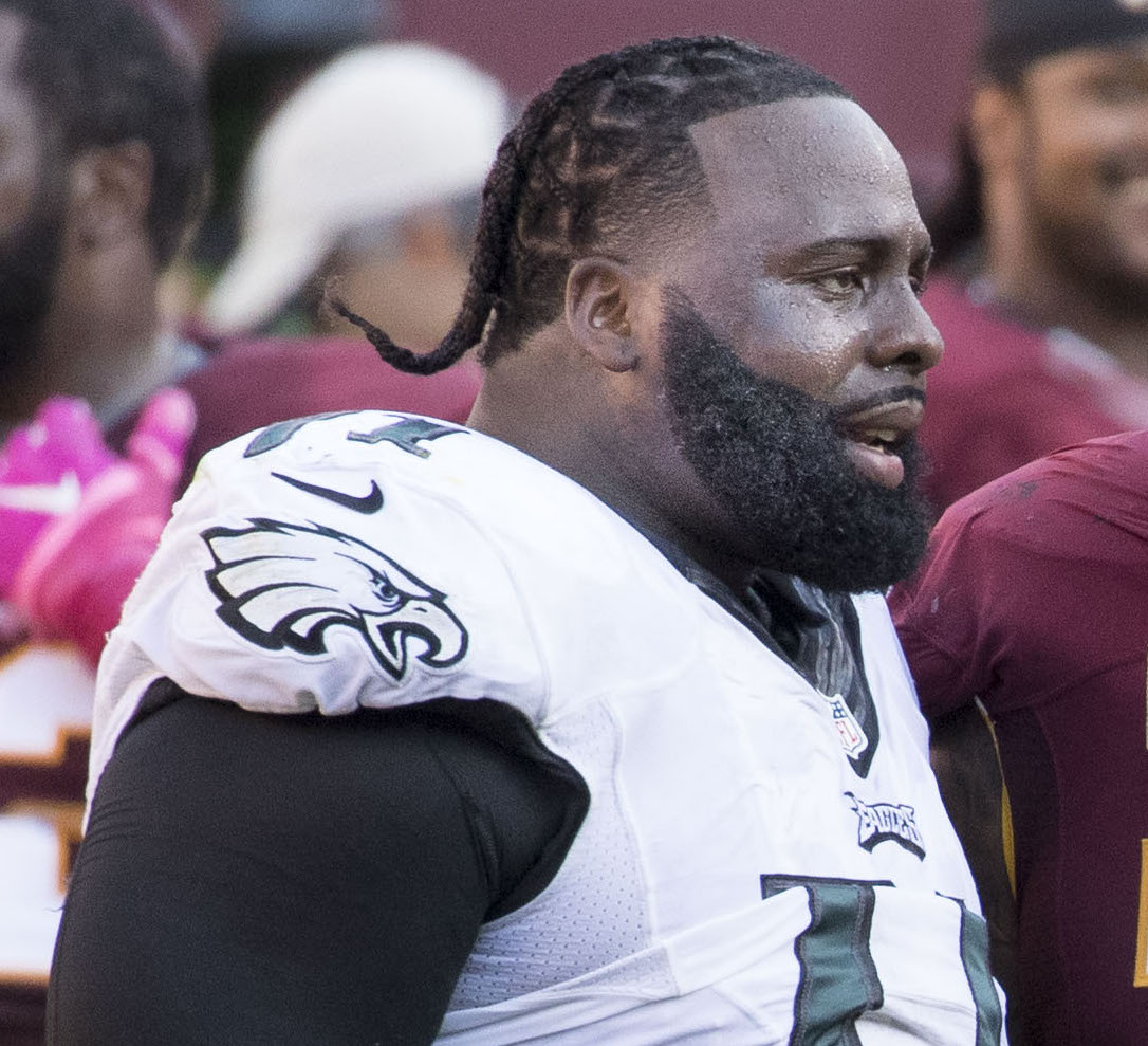 Philadelphia Eagles offensive tackle, Jason Peters, after a game against the Washington Redskins on October 16, 2016.